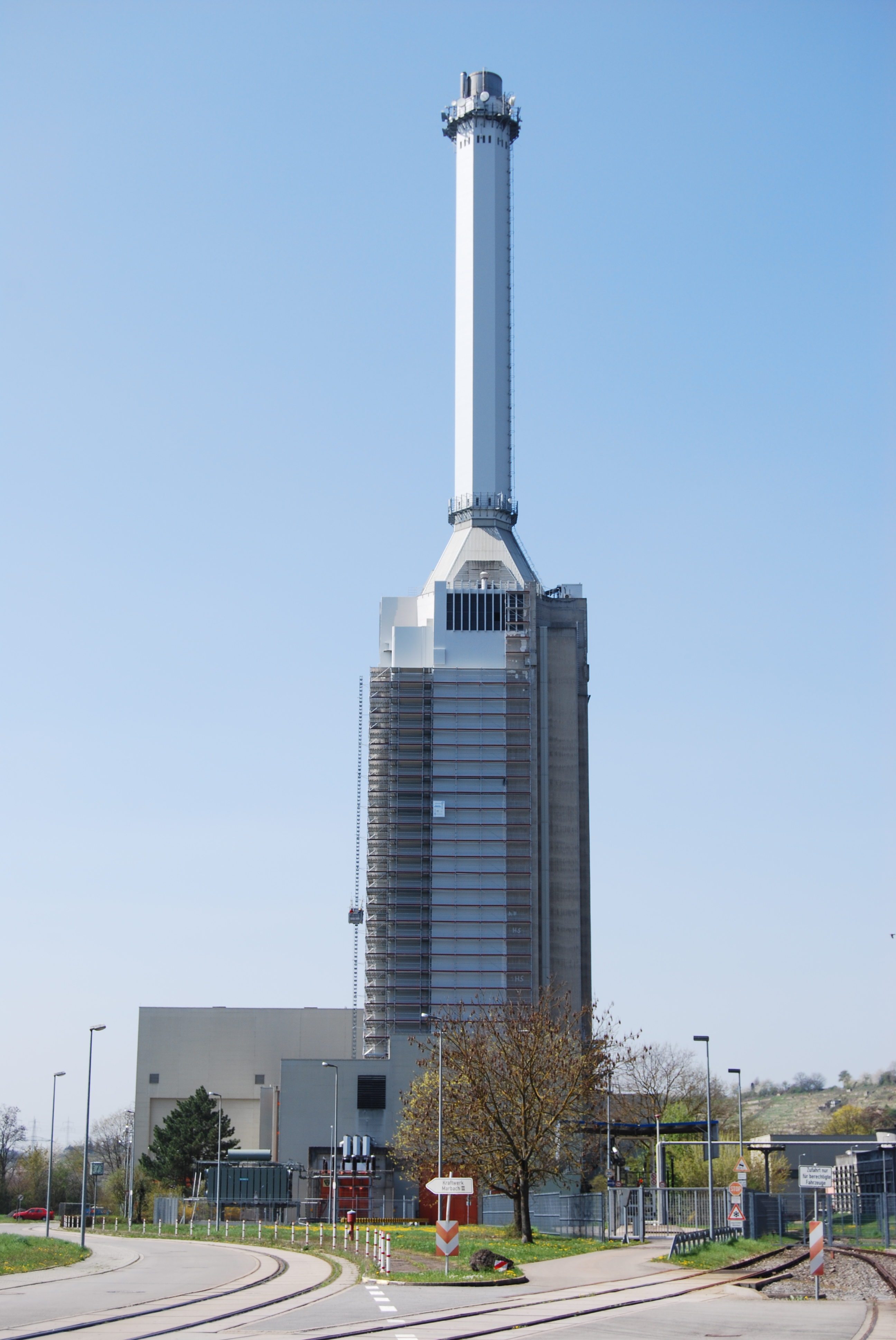 The oil-fired Marbach III Power Plant near Marbach, Germany. Operational 1974-1998, reactivated and operational again since 2005.